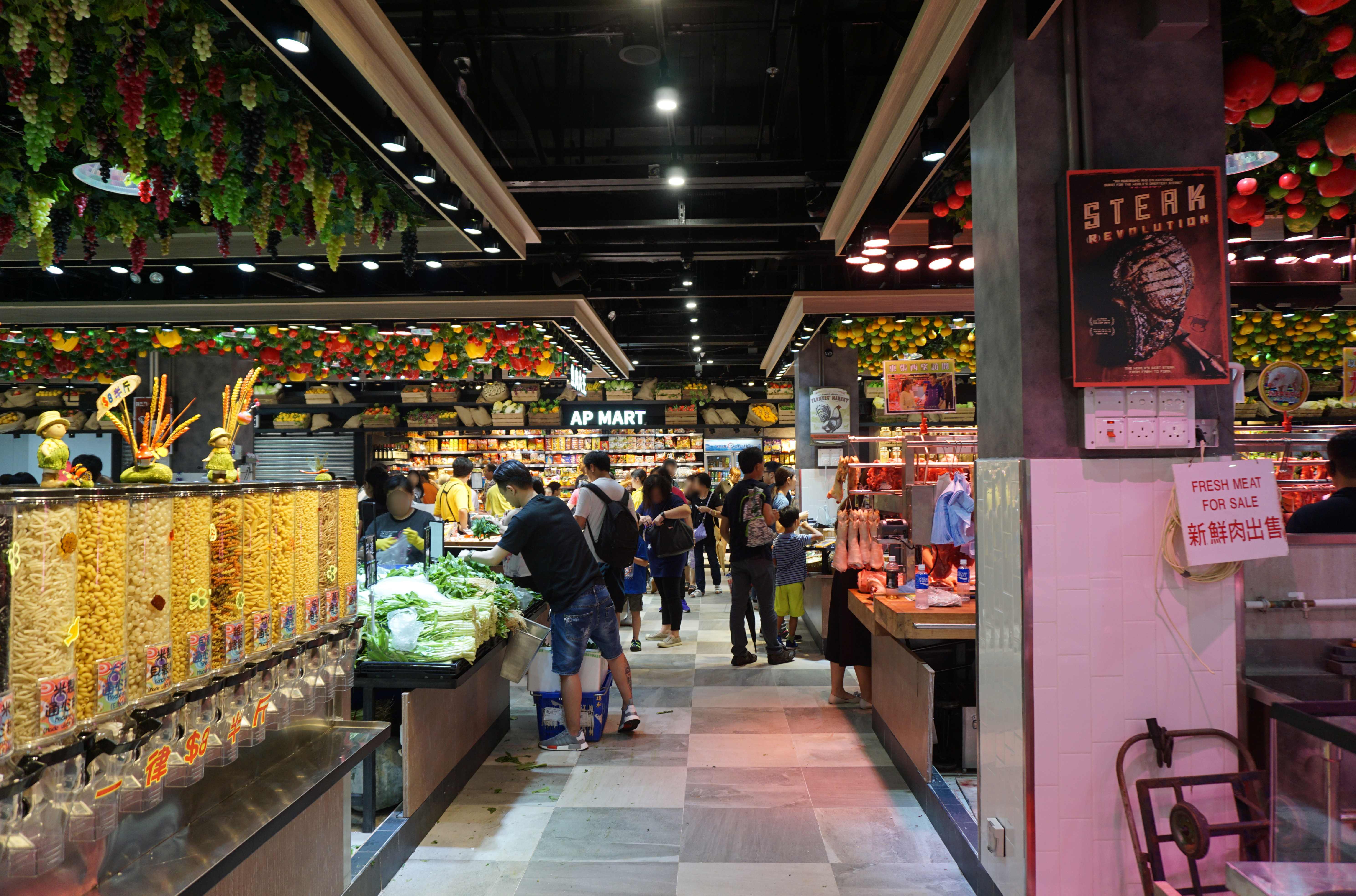 M.C.BOX in Tai Wai, Hong Kong.